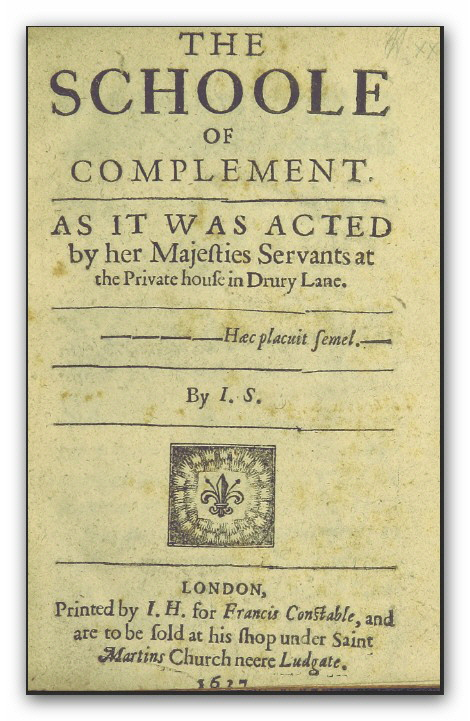 Page 7 of The Schoole of Complement. A comedy in five acts, in prose and verse